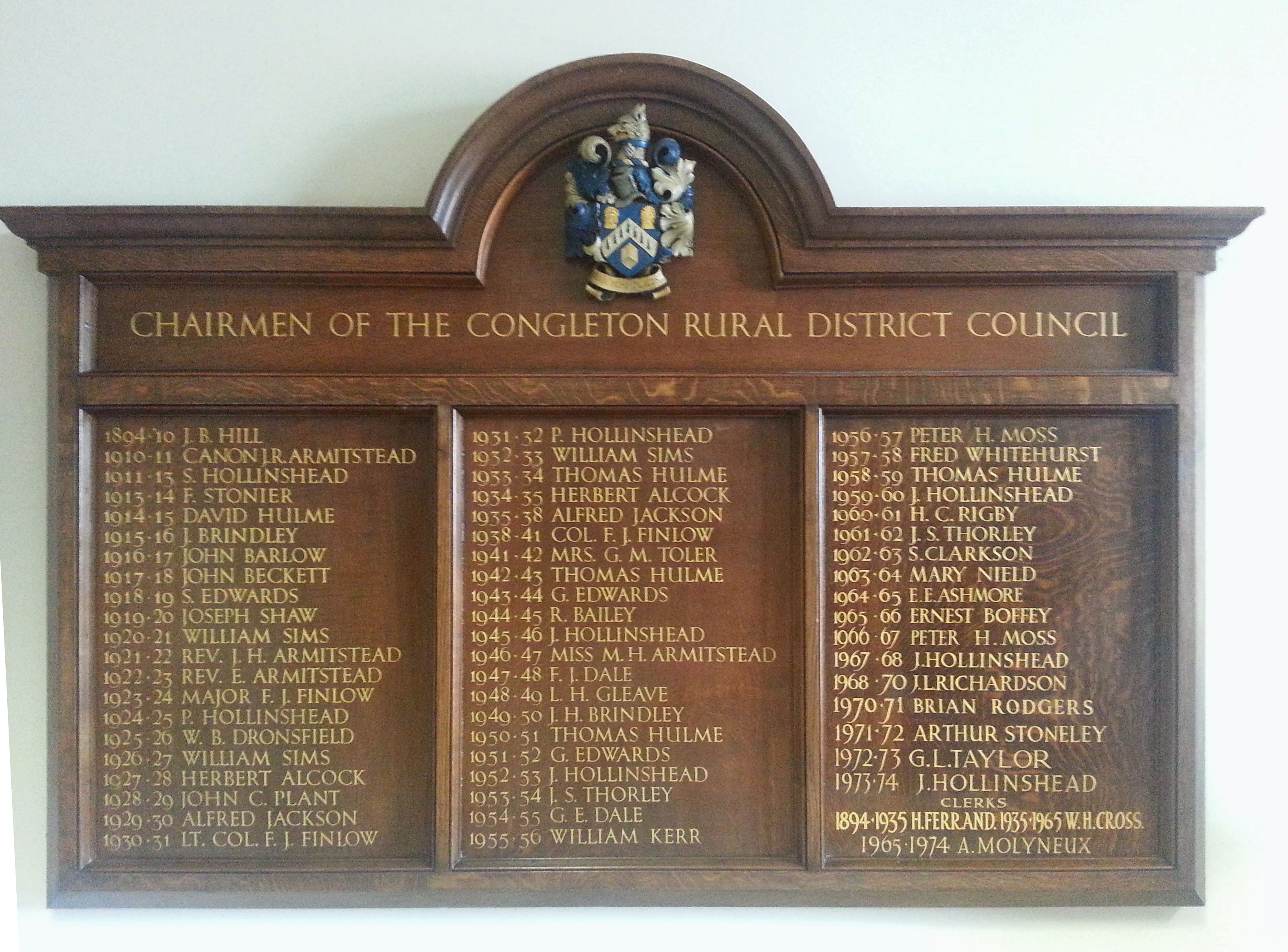 Chairmen of Congleton Rural District Council, plaque located in Sandbach Literary Institution, the offices of Sandbach Town Council. It reads: Chairmen of the Congleton Rural District Council 1894-10 R.B. Hill 1910-11 Canon J.R. Armistead 1911-13 S. Hollinshead 1913-14 F. Stonier 1914-15 David Hulme 1915-16 I. Brindley 1916-17 John Barlow 1917-18 John Beckett 1918-19 S. Edwards 1919-20 Joseph Shaw 1920-21 William Sims 1921-22 Rev J.H. Armistead 1922-23 Rev E. Armistead 1923-24 Major F.J. Finlow 1924-25 P. Hollinshead 1925-26 W.B. Dronsfield 1926-27 William Sims 1927-28 Herbert Alcock 1928-29 John C. Plant 1929-30 Alfred Jackson 1930-31 Lt. Col. F. J. Finlow 1931-32 P. Hollinshead 1932-33 William Sims 1933-34 Thomas Hulme 1934-35 Herbert Alcock 1935-38 Alfred Jackson 1938-41 Col. F.J. Finlow 1941-42 Mrs G.M. Toler 1942-43 Thomas Hulme 1943-44 G. Edwards 1944-45 R. Bailey 1945-46 J. Hollinshead 1946-47 Miss M.H. Armistead 1947-48 F.I. Dale 1948-49 L.H. Cleave 1949-50 Thomas Hulme 1951-52 G. Edwards 1952-53 J. Hollinshead 1953-54 J.S. Thorley 1954-55 G.E. Dale 1955-56 William Dale 1956-57 Peter H. Moss 1957-58 Fred Whitehurst 1958-59 Thomas Hulme 1959-60 J. Hollinshead 1960-61 H.C. Rigby 1961-62 J.S. Thorley 1962-63 S. Clarkson 1963-64 Mary Neild 1964-65 E.E. Ashmore 1965-66 Ernest Boffey 1966-67 Peter H. Moss 1967-68 J. Hollinshead 1968-70 J. Richardson 1970-71 Brian Rodgers 1971-72 Arthur Stoneley 1972-73 G. L. Taylor 1973-74 J. Hollinshead Clerks 1894-1935 H. Ferrand 1935-1965 W.H. Cross 1965-1874 A. Molyneux